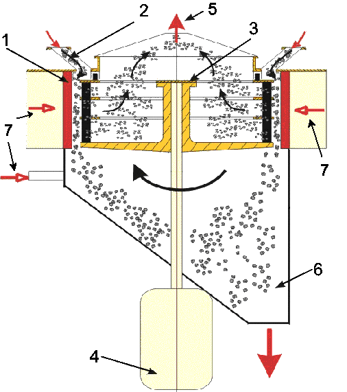 Principal scheme of air centrifugal classifier